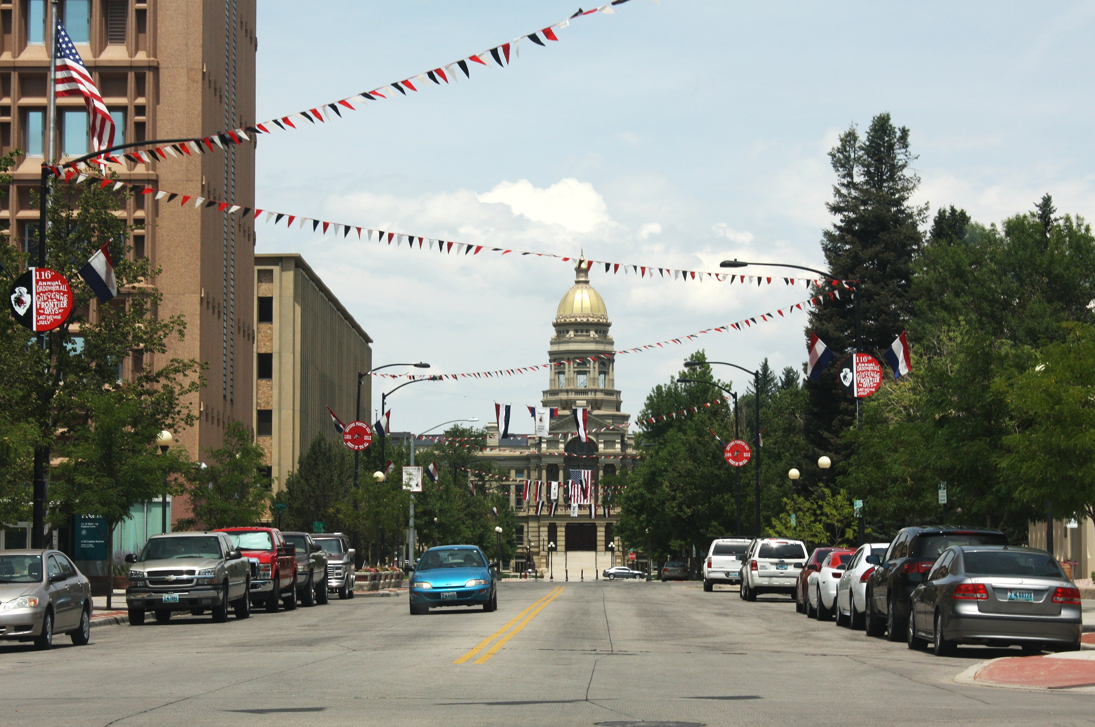 Wyoming State Capitol, Cheyenne, Wyoming. Looking northwest up Capitol Ave.